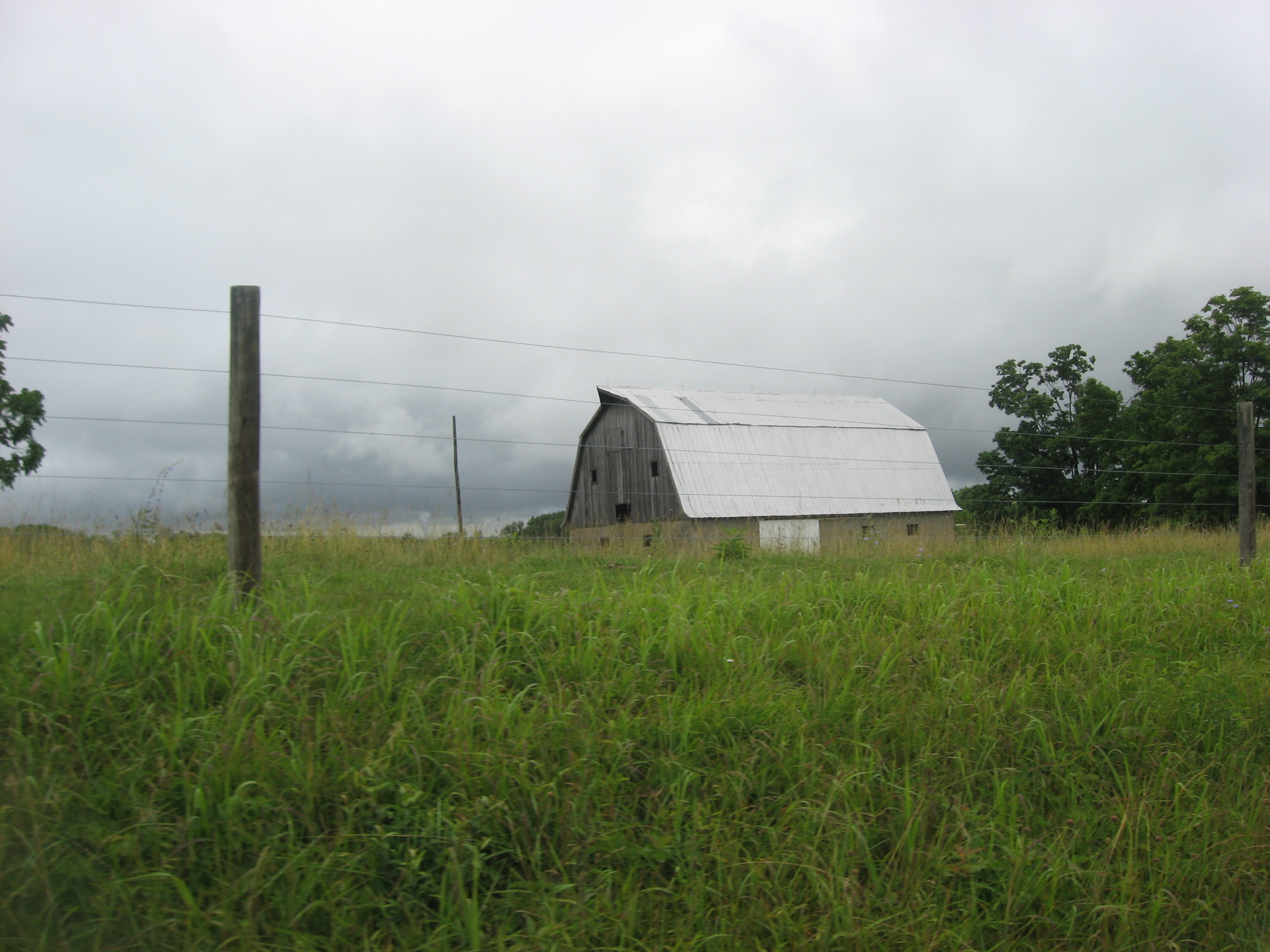 Open land and a barn on the western side of Kentucky Route 1492 north of Bedford in Trimble County, Kentucky, United States. Here was formerly located a historic house, the House on KY 1492, which was built in 1800 and listed on the National Register of Historic Places in 1984; it has not yet been removed, despite its destruction.